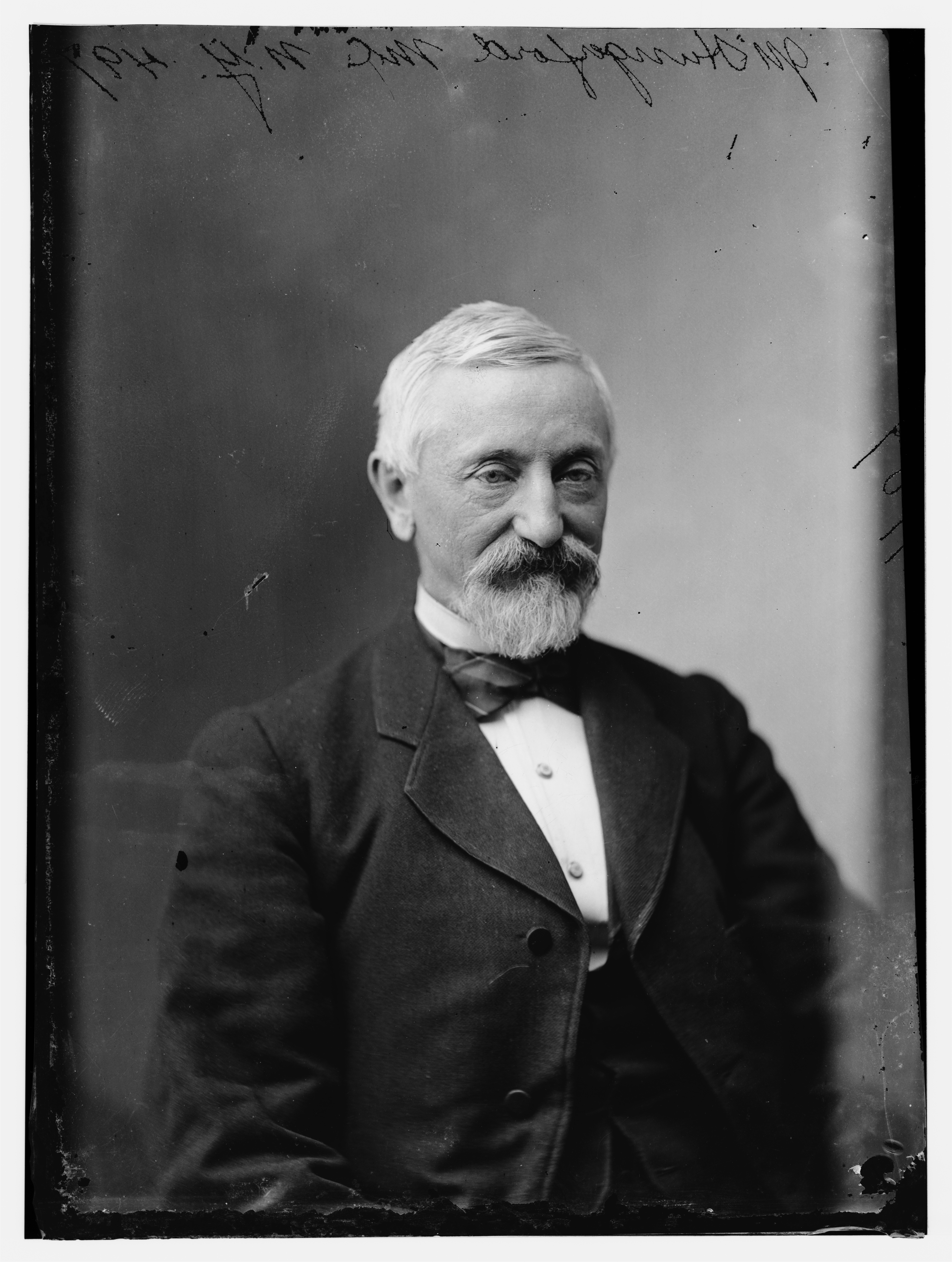 John N. Hungerford, Congressman for New York